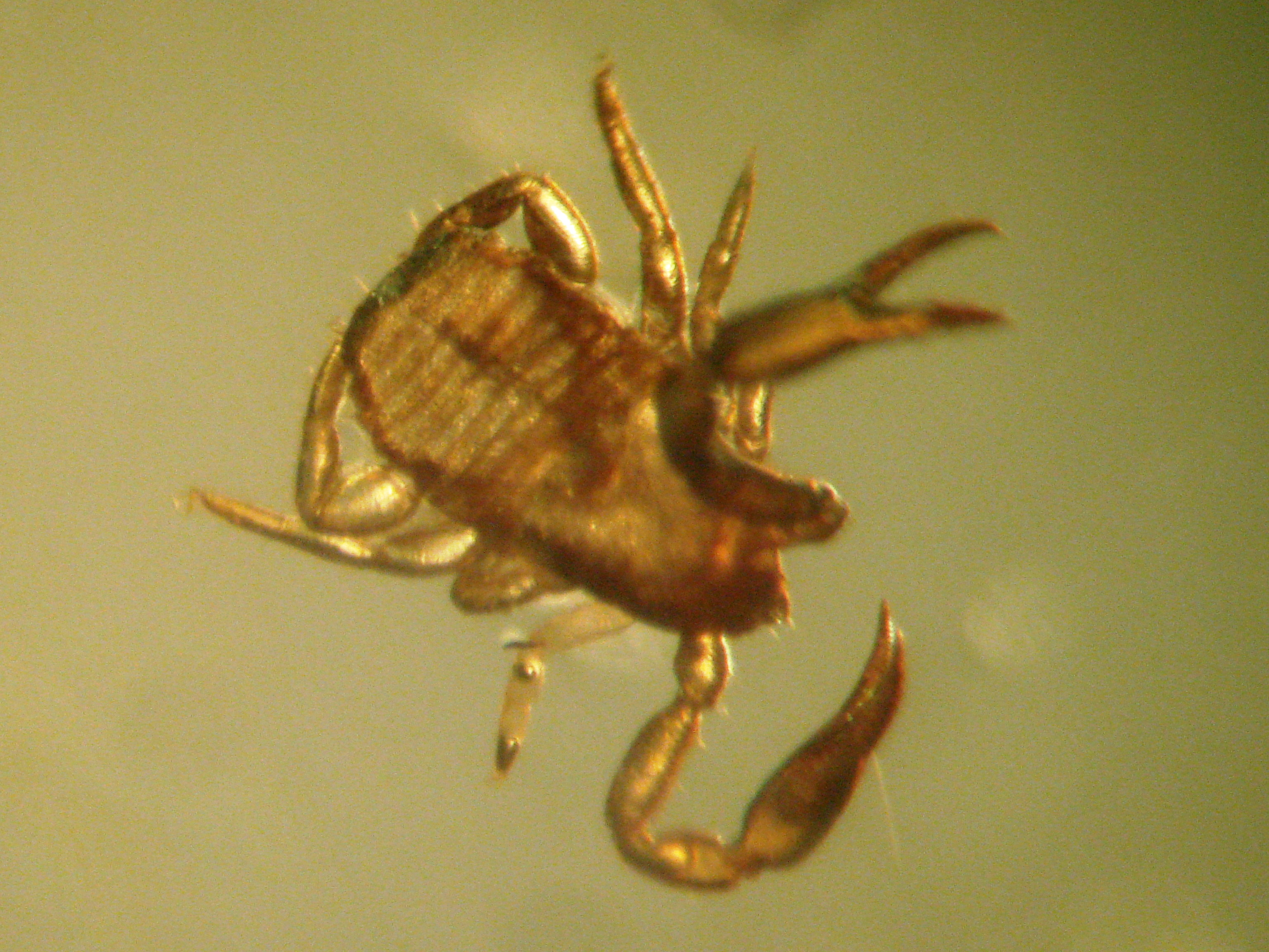 Baltic amber inclusions - 50 million years old - Arachnida, Pseudoscorpionides, ...? The top side whit whit light from behind. There is 4 picture of this Pseudoscorpion - two of the pseudoscorpion whit light from behind and two whit light from the top.